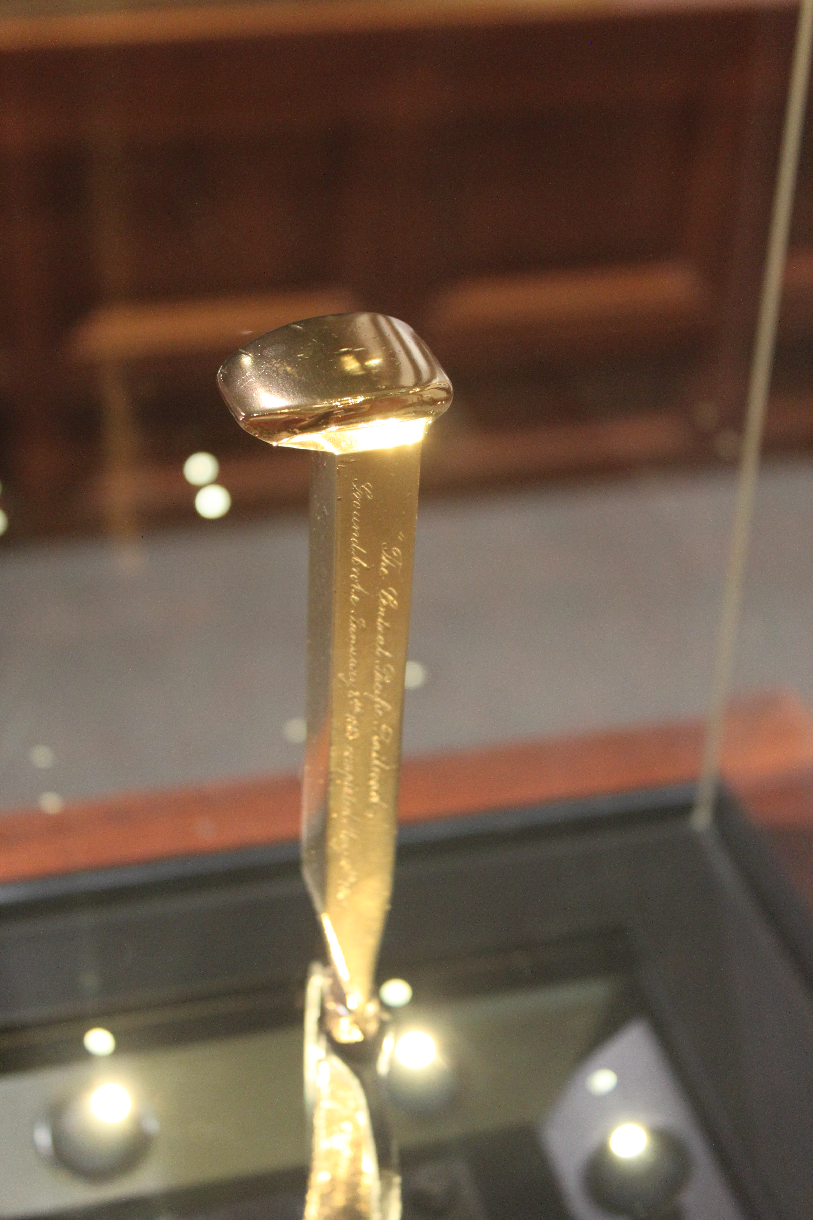 Hewes Family Golden Spike at the California State Railroad Museum